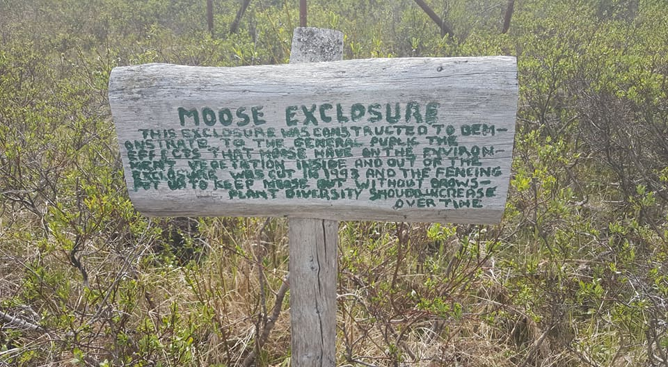 interpretive sign at moose exclosure research site, Homestead Trail, Homer, Alaska. See File:Moose exclosure.jpg for the actual exclosure.